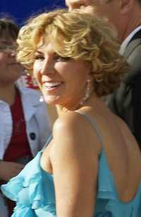 Natasha Richardson at the UK premiere of The Chronicles of Narnia: Prince Caspian.